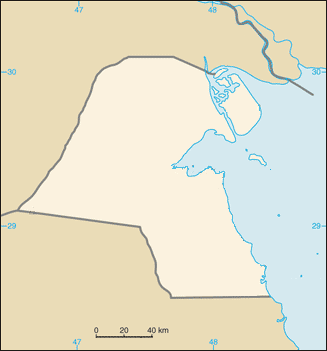 Blanked map of Kuwait, adapted from CIA-map